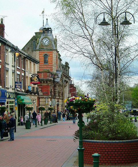 Town centre of Crewe looking towards the Market Hall.